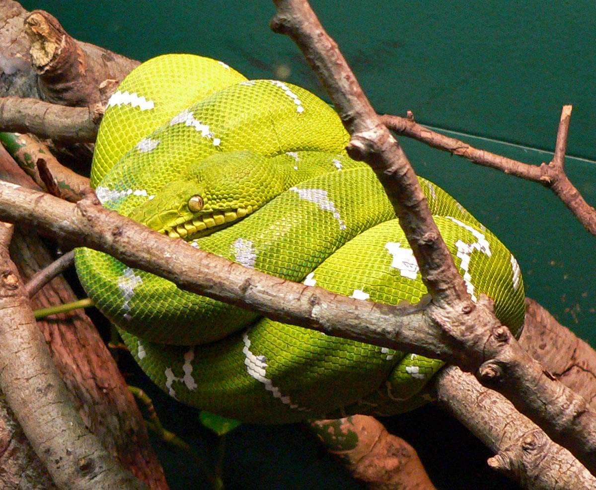 Photo of Corralus caninus (emerald tree boa) at the Steinhart Aquarium in San Francisco